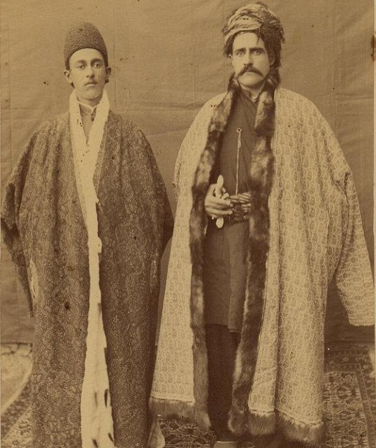 Sardar Bukan in qajar